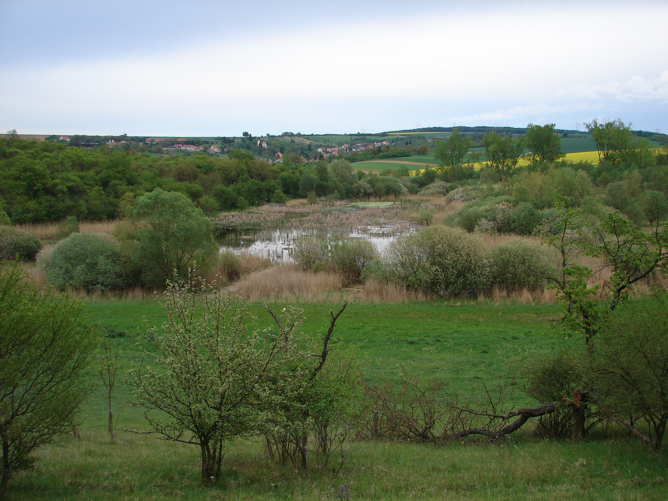 Nature reserve Rašovický zlom - Chobot, Vyškov District, Czech republic. Project: Chráněná území.